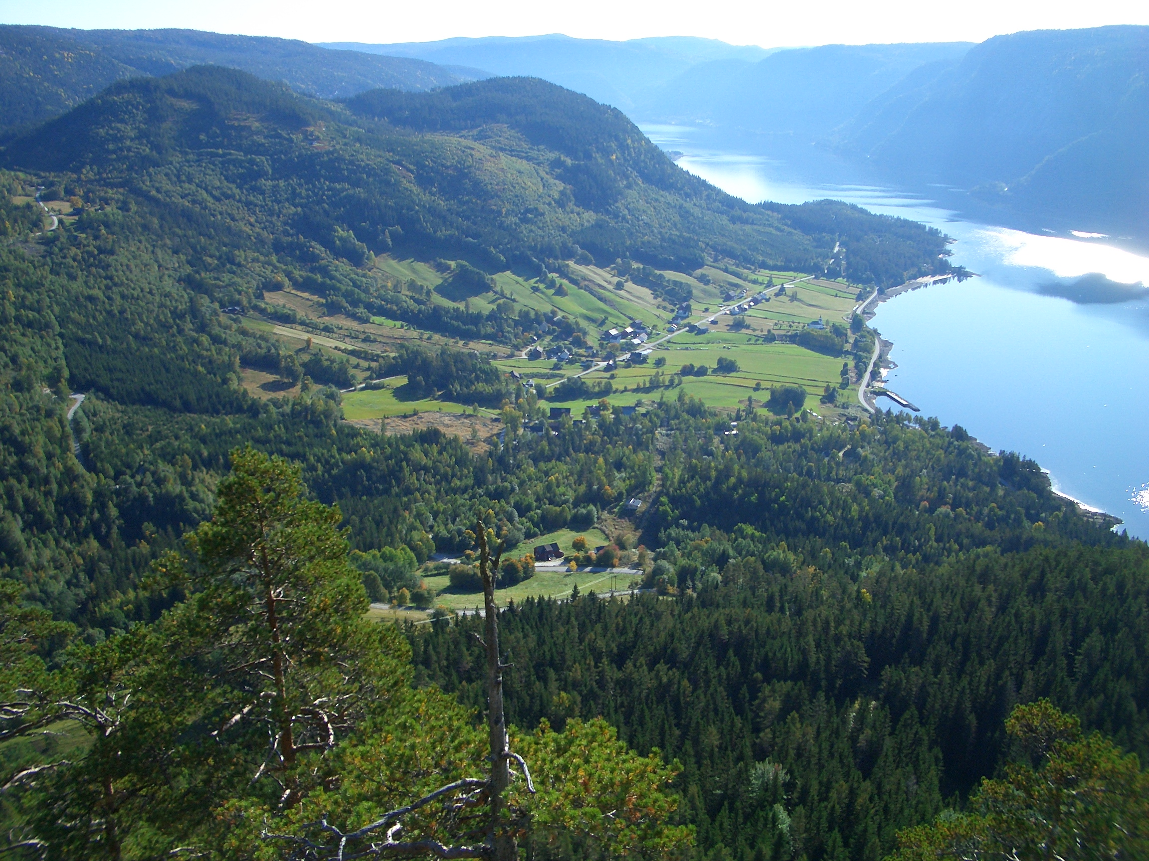 village of AAraksboe